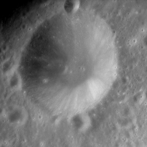 Slightly oblique view Black, on the far side of the moon.